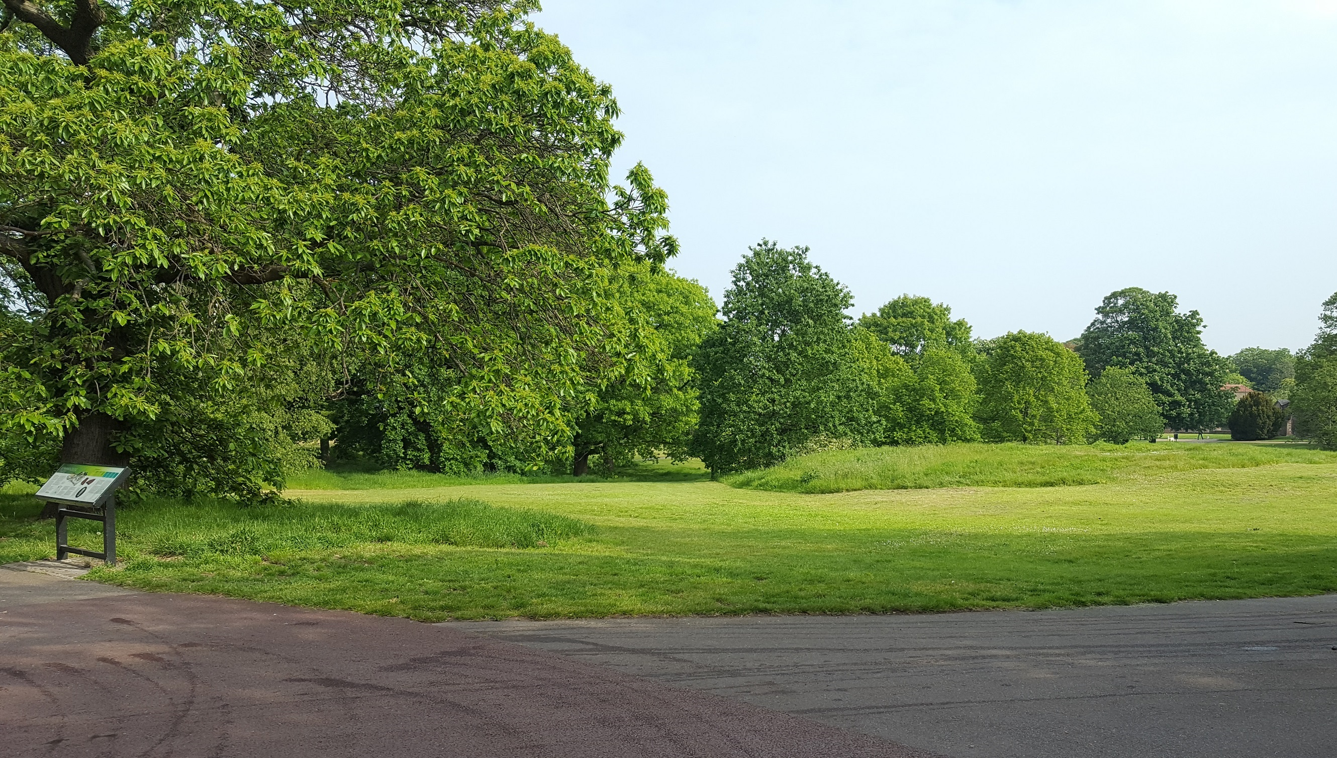 information display by Friends of Greenwich Park provides insight on the prehistoric landscape of Greenwich Park